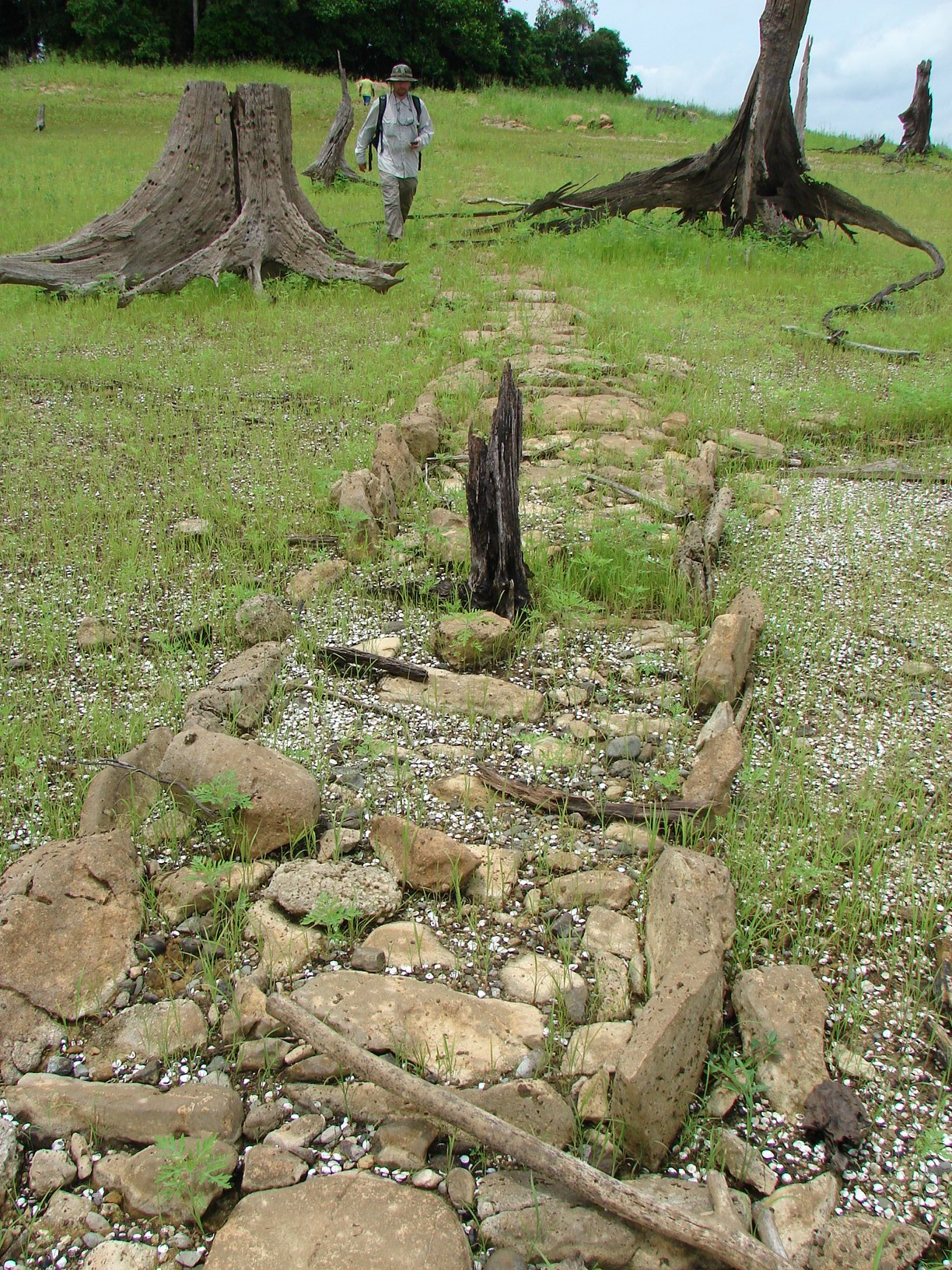 Cobble of the Camino Real close the shore of Alajuela Lake. Every dry seasons the level of the lake falls considerably because it provides water for the Panama Canal. Hence, flooded sections of the Camino Real reappear.